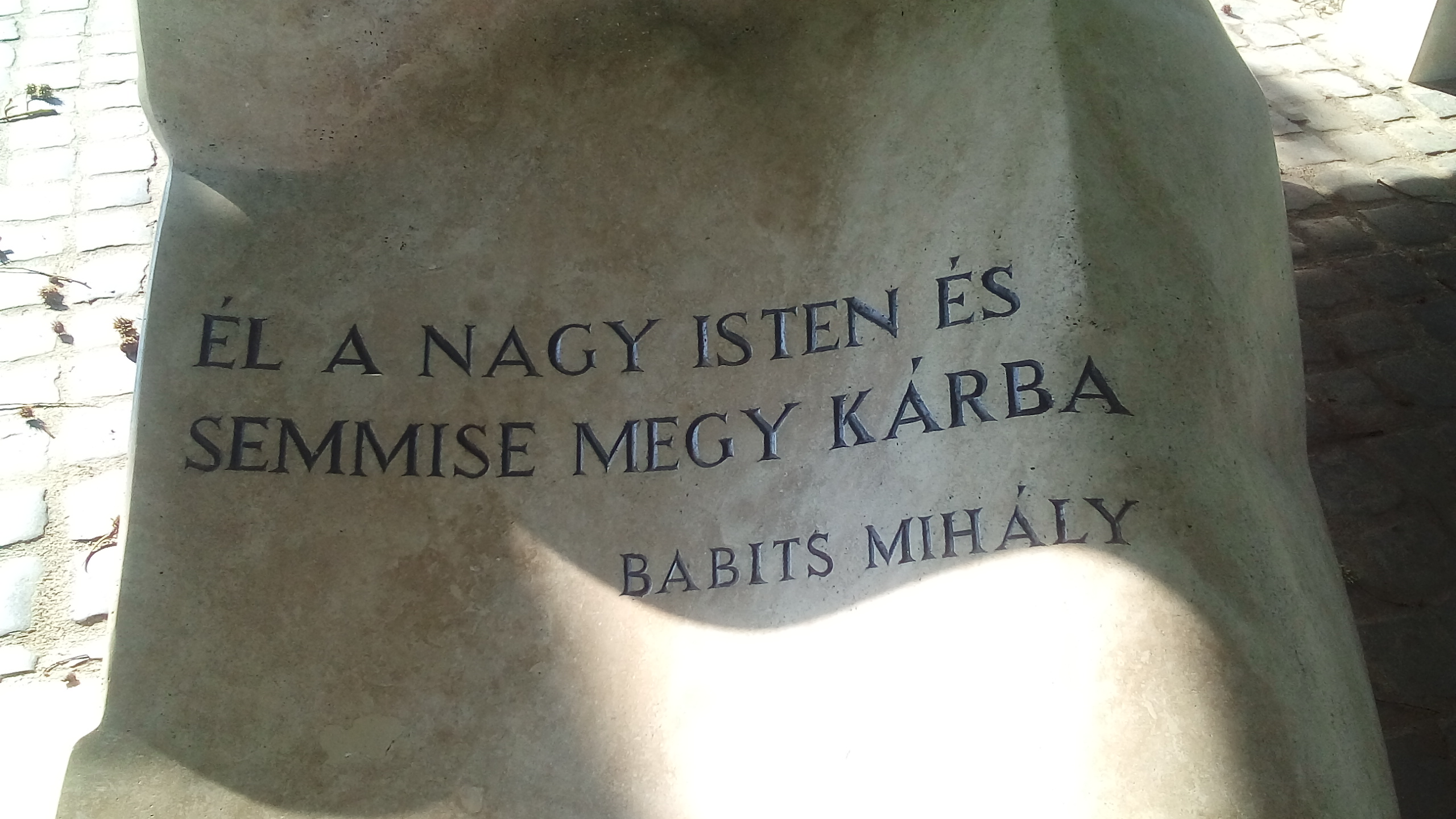 Trianon Memorial in Paks, Hungary, built in 2014